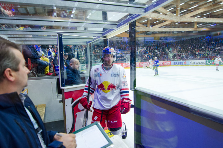 25.10.2013, Stadthalle Villach, AUT, EBEL, 27. Runde, EC VSV vs. EC RED BULL Salzburg, im Bild // frostworx Pictures © 2013, PhotoCredit: frostworx / Alex Micheu